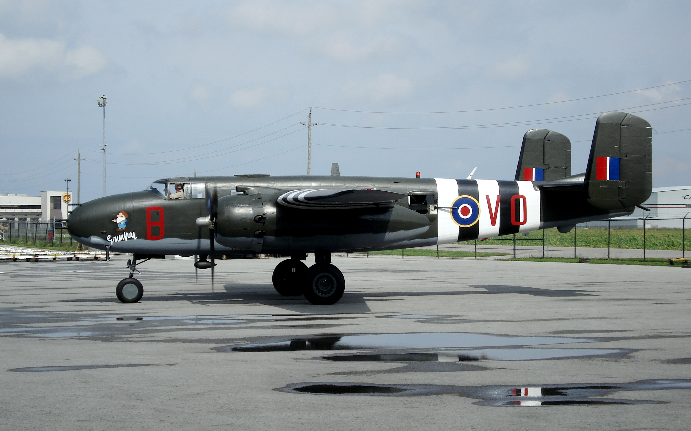 B-25J of the Canadian Warplane Heritage Museum, taxing for takeoff. It has been restored to the configuration of aircraft from 98 Squadron of the RAF. Photo taken on September 23, 2006. Source: Photo by me, User:Balcer.